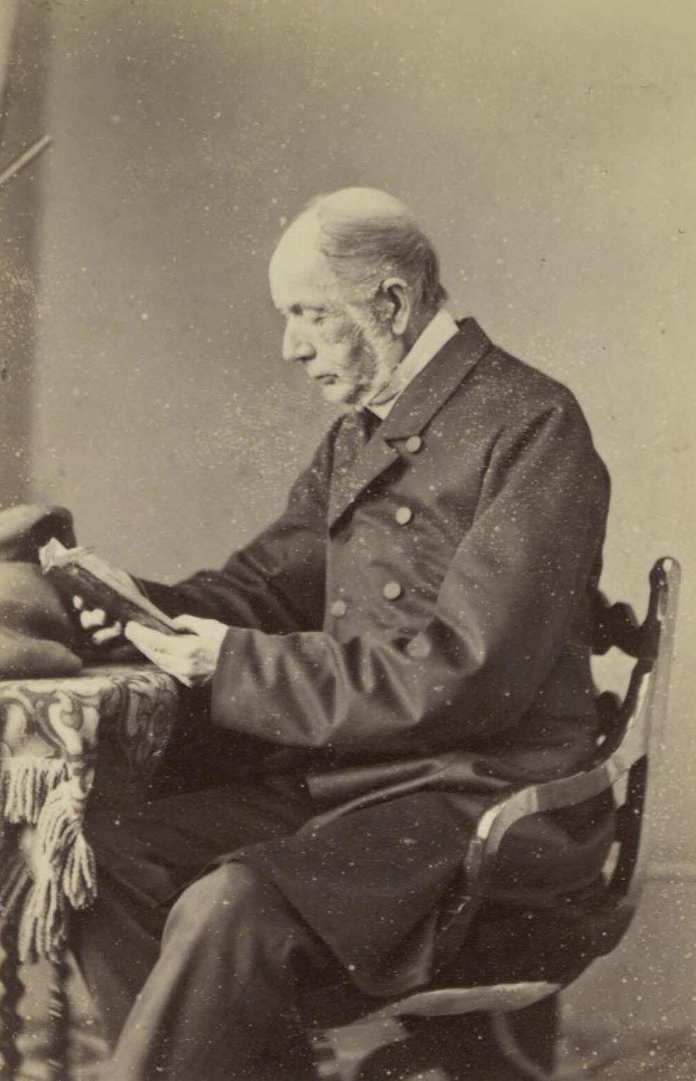 A portrait from the Welsh Portrait Collection at the National Library of Wales. Depicted person: Francis Kilvert – British writer